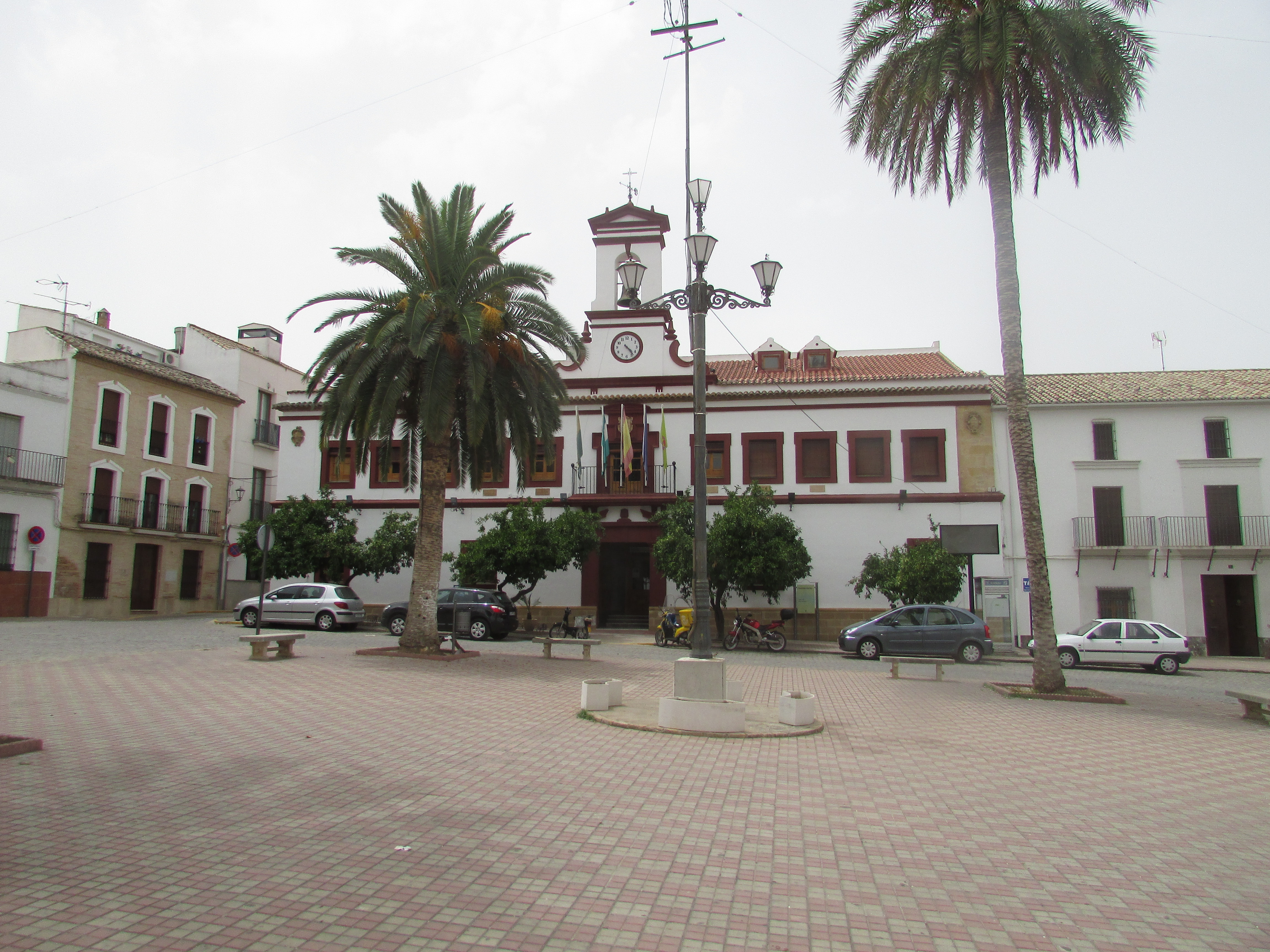 The town hall of Lopera, Andalusia, Spain. The building is located on the west side Plaza de la Constitución.